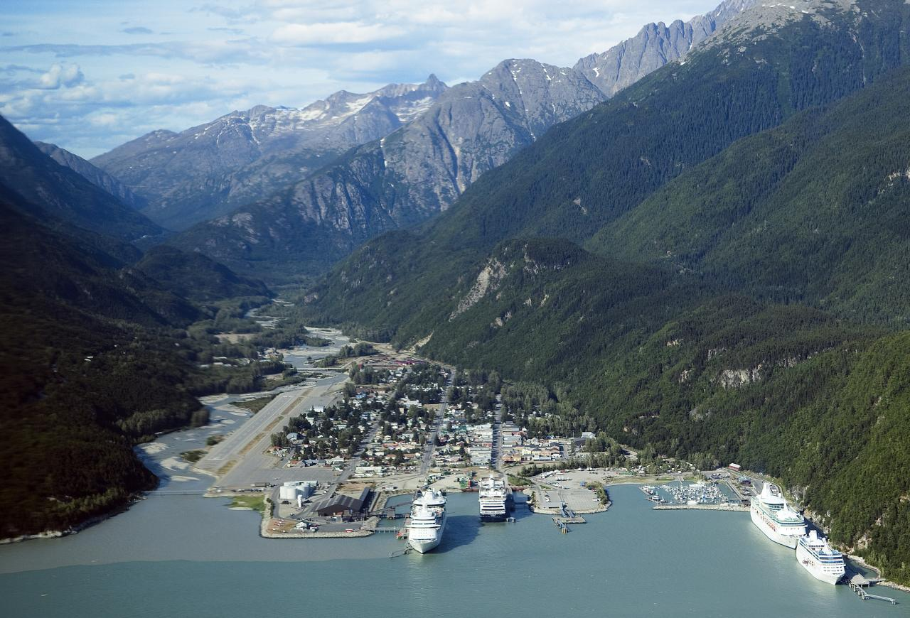 Aerial view of Skagway, Alaska. Skagway River.